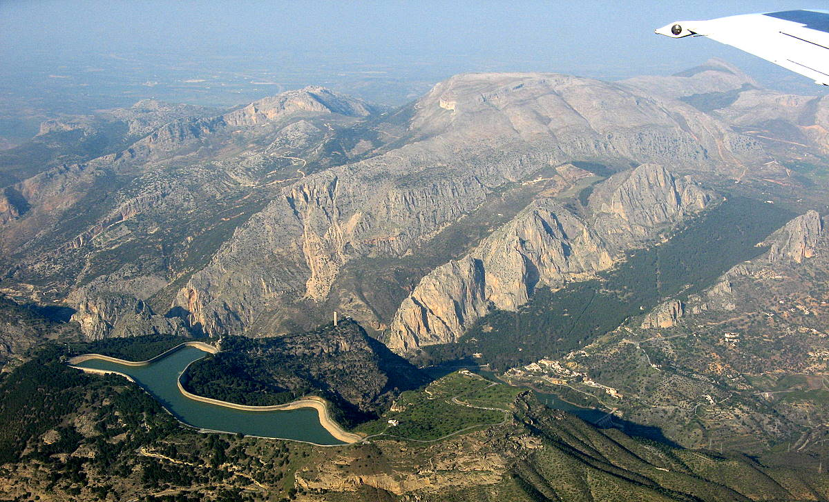 El Chorro